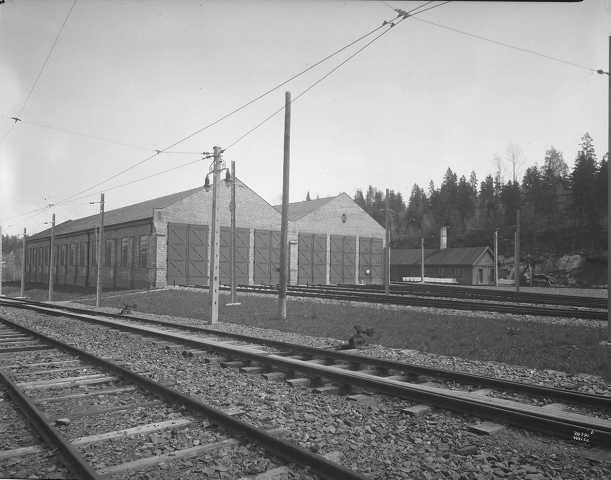 Bærumbanen's depot at Avløs in Bærum, Norway.